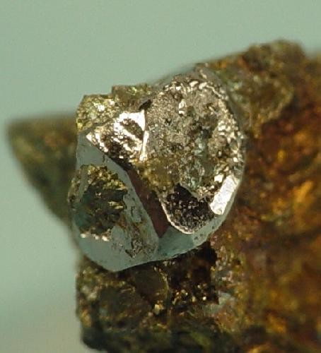 Sperrylite Locality: Vermilion Mine, Denison Township, Sudbury District, Ontario, Canada (Locality at ) Size: 1.2 x .7 x .2 cm. A sharp, lustrous 2mm crystal of Sperrylite right on the tip of a matrix shard composed of a very interestring suite of minerals (cubanite, pentlandite, etc). For the locality, this is quite an excellent, attractive Sperrylite. This is the type locality for this rare platinum species. Ex. Charlie Key Collection.